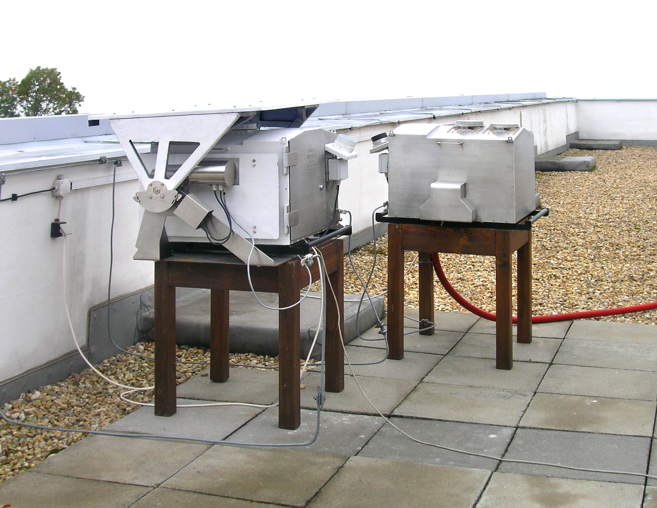 Fireball Cameras at the Czech Astronomical Institute in Ondřejov